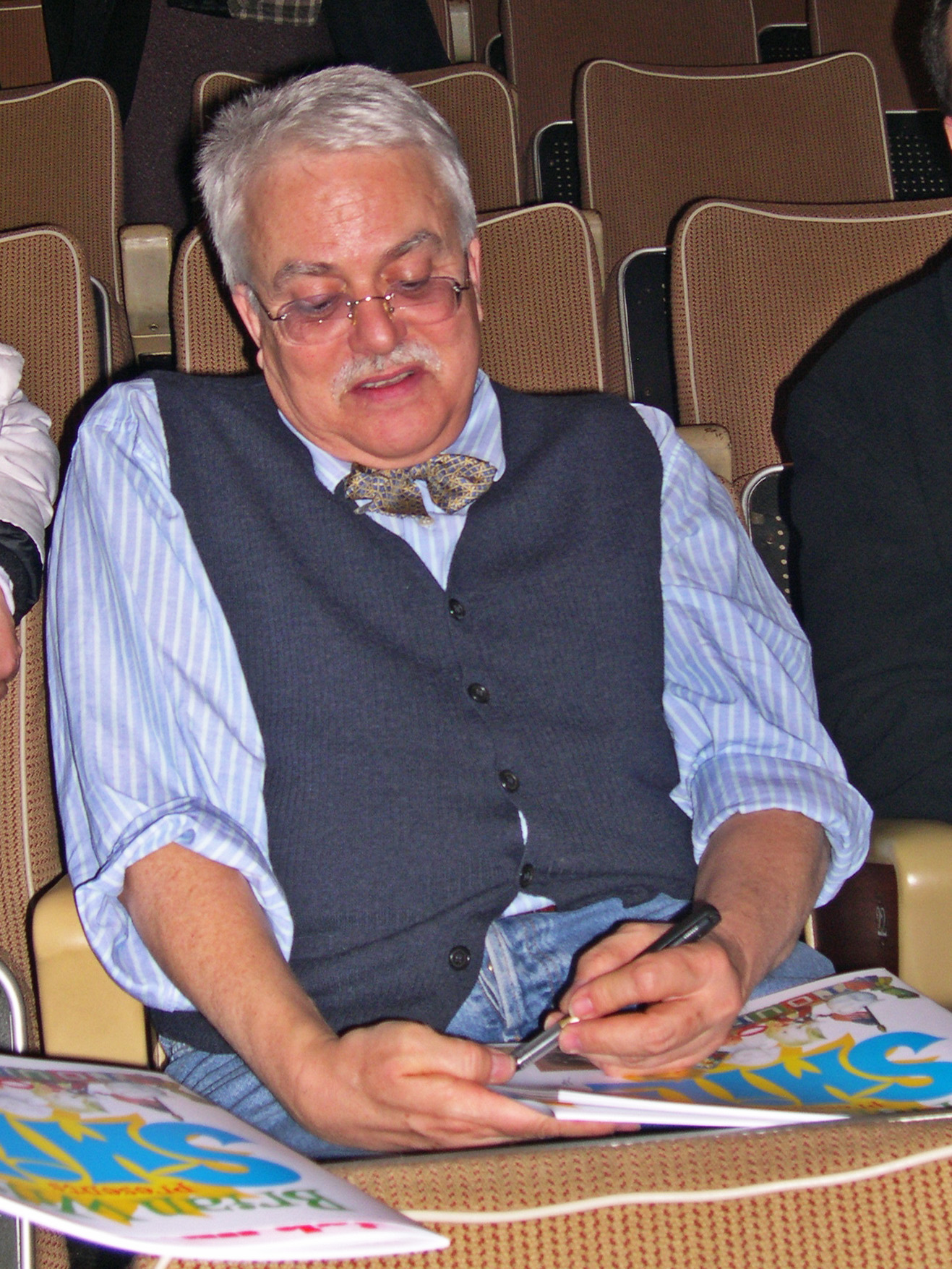 Van Dyke Parks signing SMiLE programs at the Royal Festival Hall on February 21, 2004.